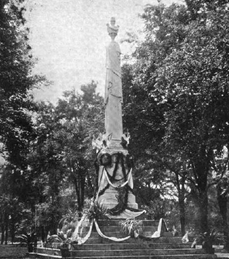 Confederate Monument, Salisbury Park, Columbus, GA